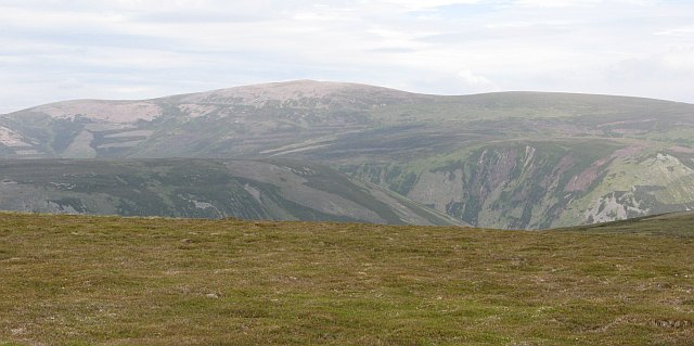 The Atholl Beinn Dearg Beinn Dearg stands out with its pale pink granite screes. View from across Glen Bruar.